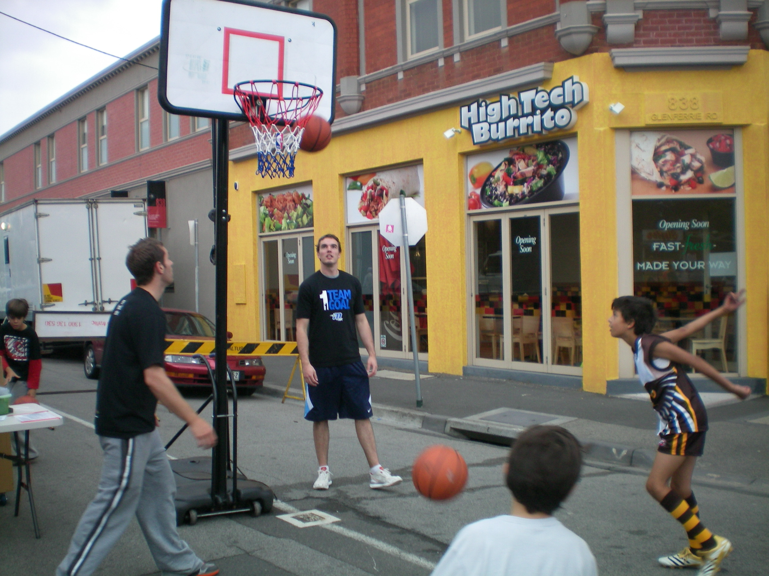 The 2009 Glenferrie Road Festival.